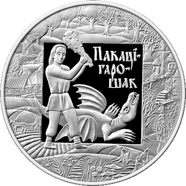 Belarus and the global community. Commemorative coins "Pokatigoroshek. legends and tales of the peoples of the Eurasian Economic Community")